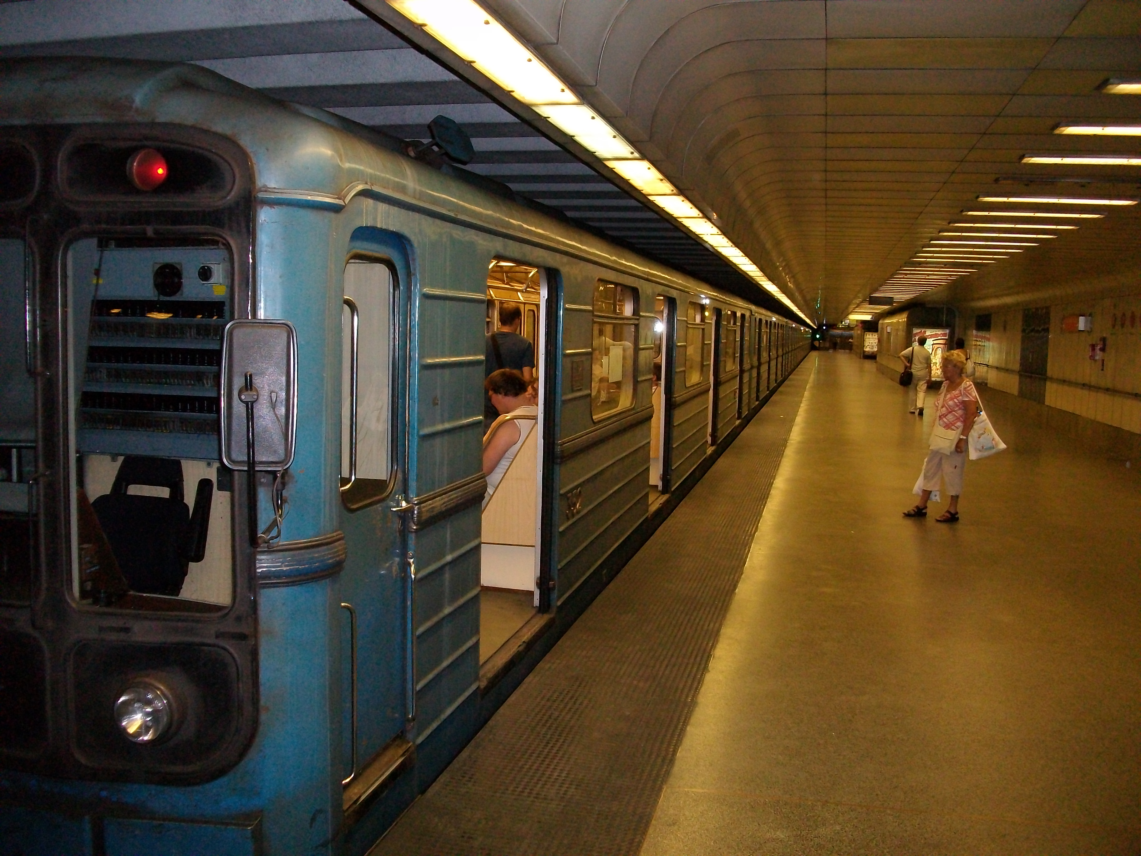 Újpest-Városkapu metro station, Budapest, Hungary